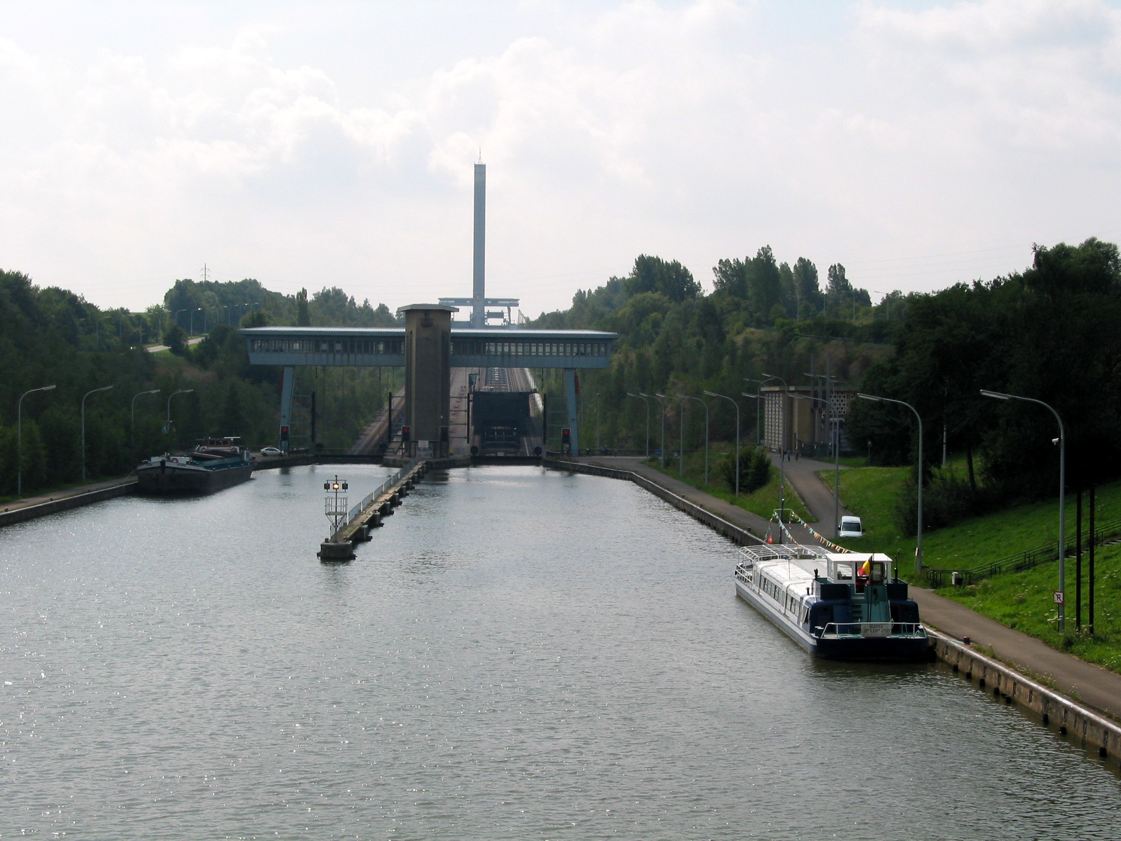 Ronquières (Belgium), the Brussels-Charleroi canal and the inclined plane (slope).